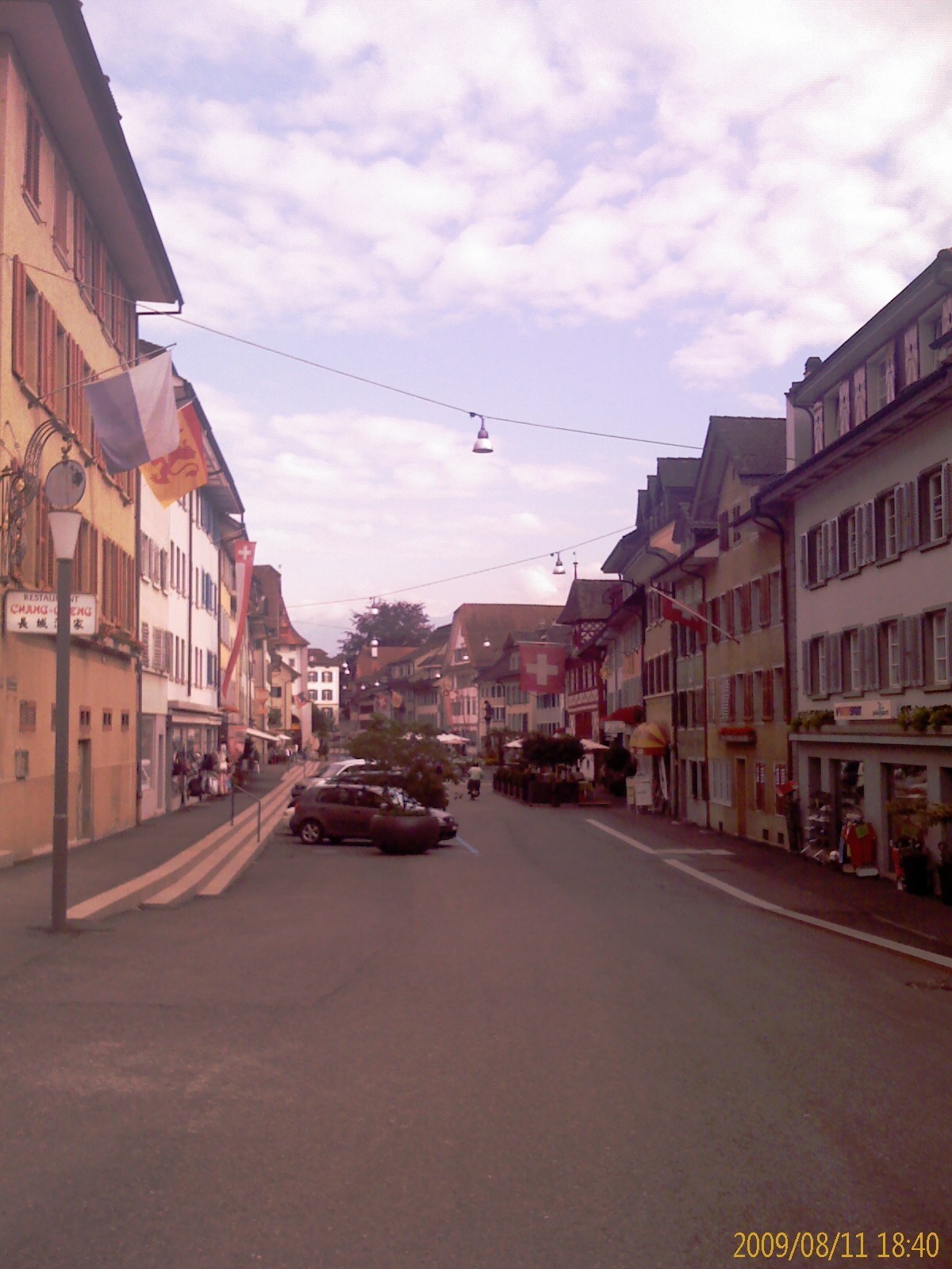 Historic old city of Sempach, canton of Luzern, SwitzerlandEsperanto: Historia malnovurbo de Sempach, Kantono Lucerno, Svislando